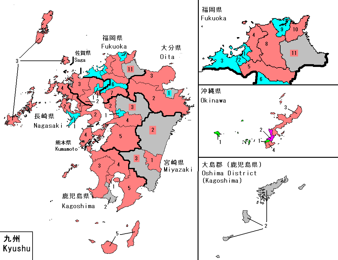 Presentation of the results of the Japan general election, 2003 in the single member districts of the Kyūshū block, based on district boundary information in :ja:衆議院小選挙区一覧 and mapping tools provided by Japanese Wikipedia User Koba-chan. Color codes: LDP - red DPJ - light blue New Komeito - green SDP - purple New Conservative Party - dark blue Other/Independent - gray Some independent politicians joined major parties immediately after the election, and their districts are marked with a colored square around the number. This is also true for the members of the New Conservative Party, which was wholly subsumed into the LDP.